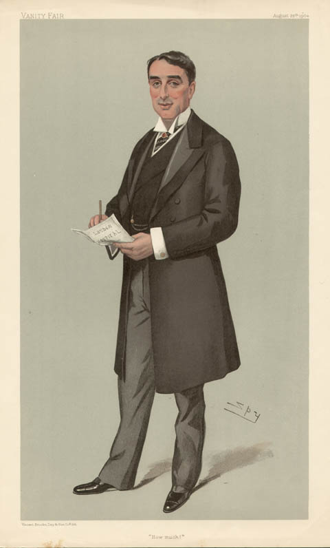 Caricature of The Hon SG Holland. Caption read "How Much?".